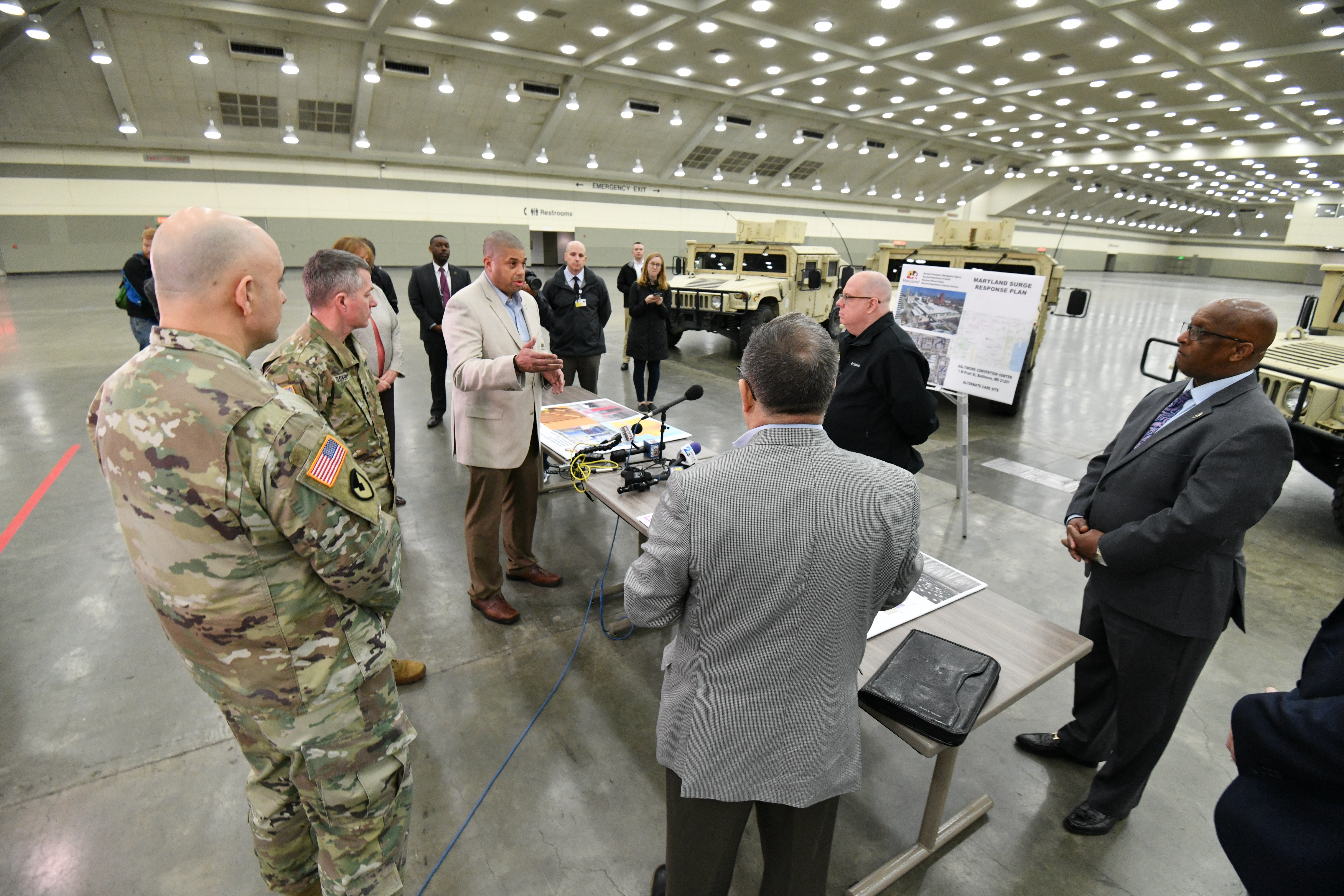 Governor Hogan Tours the Baltimore Convention Center by Joe Andrucyk at 1 W Pratt St, Baltimore, MD 21201